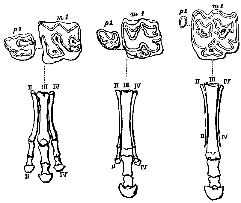 Diagram comparing the bones of the horse and its predescessors.